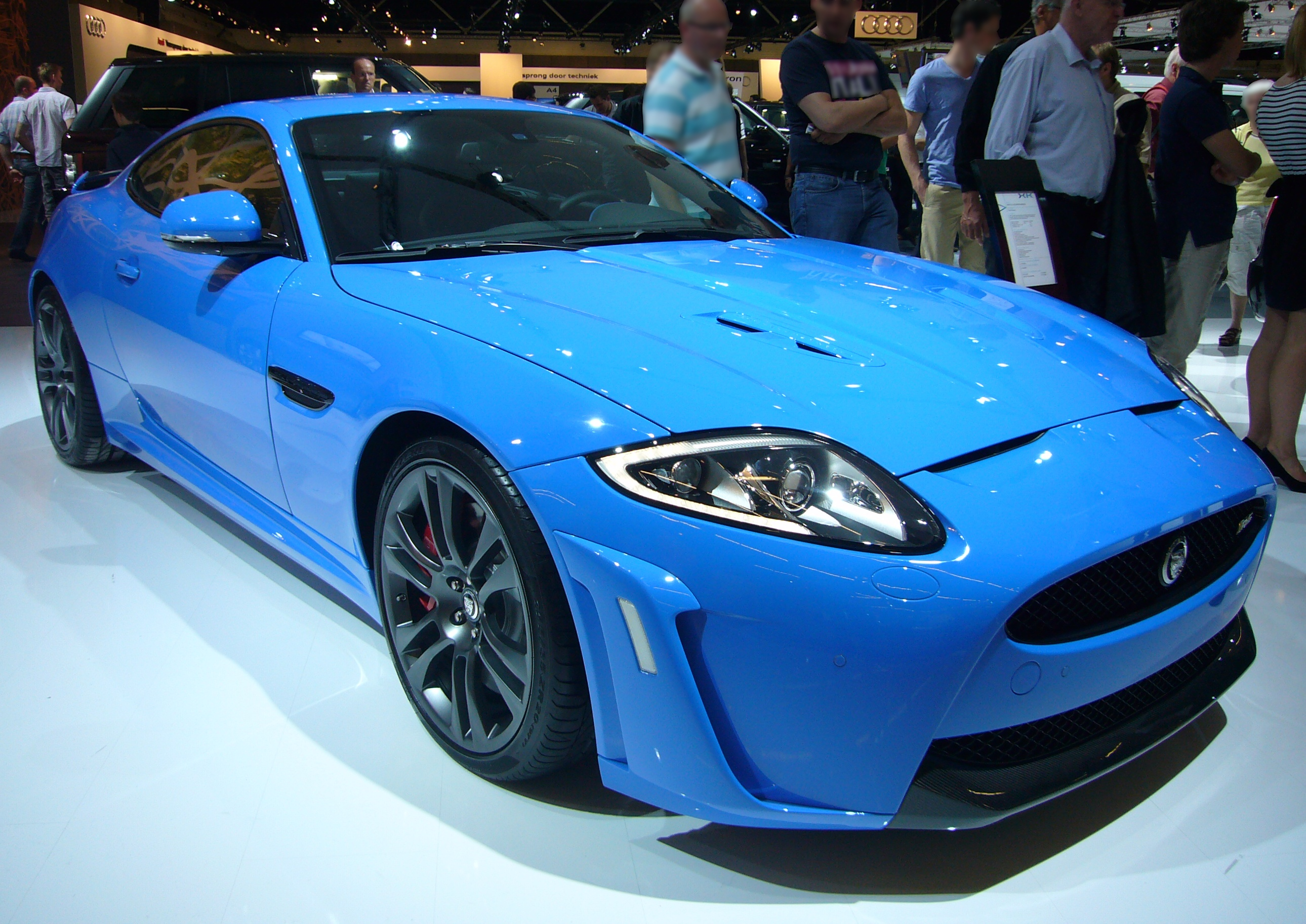 Jaguar XKR-S at AutoRAI Amsterdam 2011